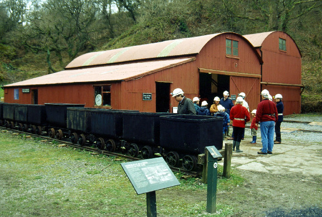 Dolaucothi Gold Mine. This gold mine dates back to Roman times and is now preserved by the National Trust. The group are waiting to go on an underground tour.